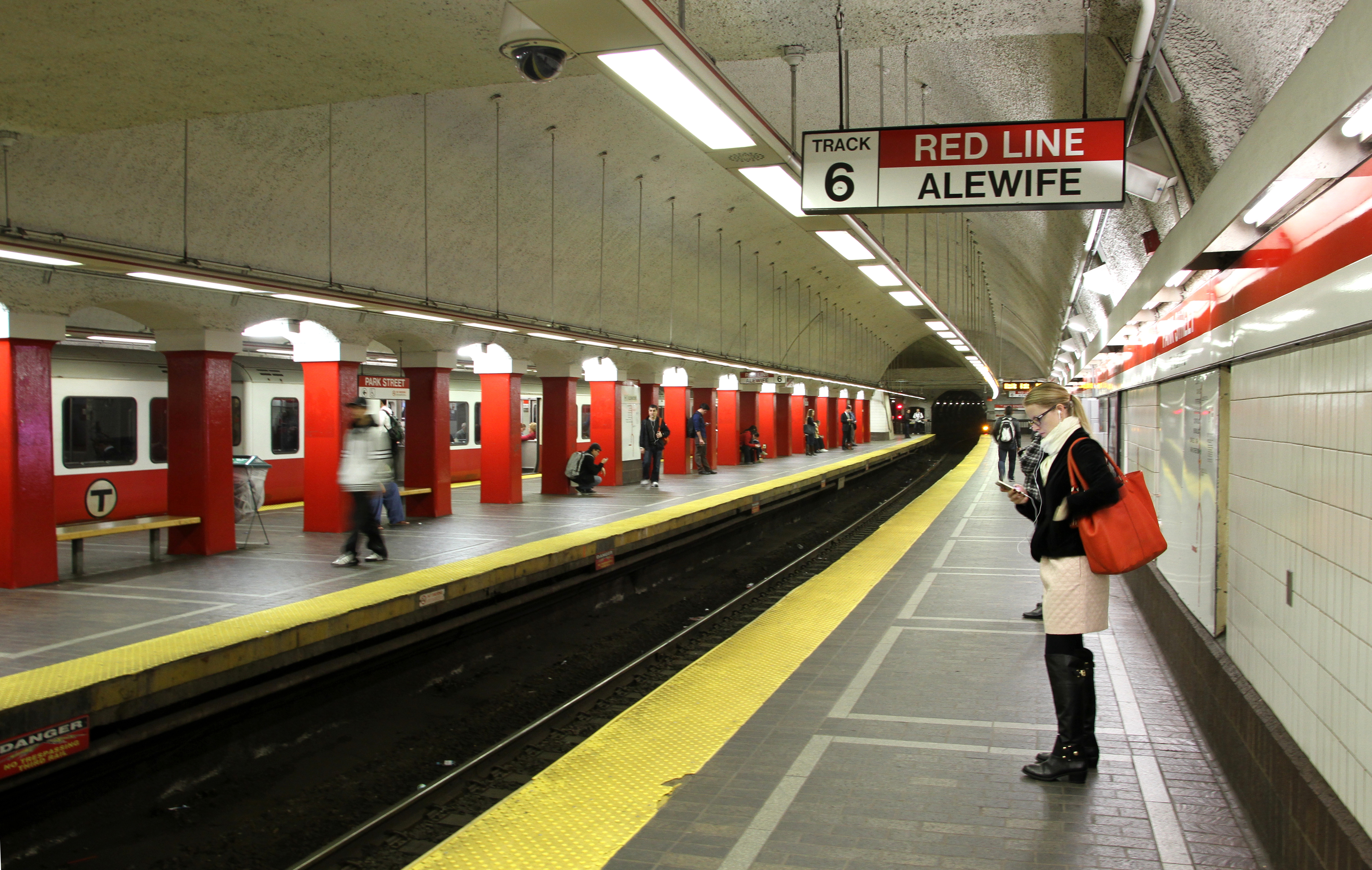 A woman stands on the northbound Red Line side platform at Park Street in October 2013